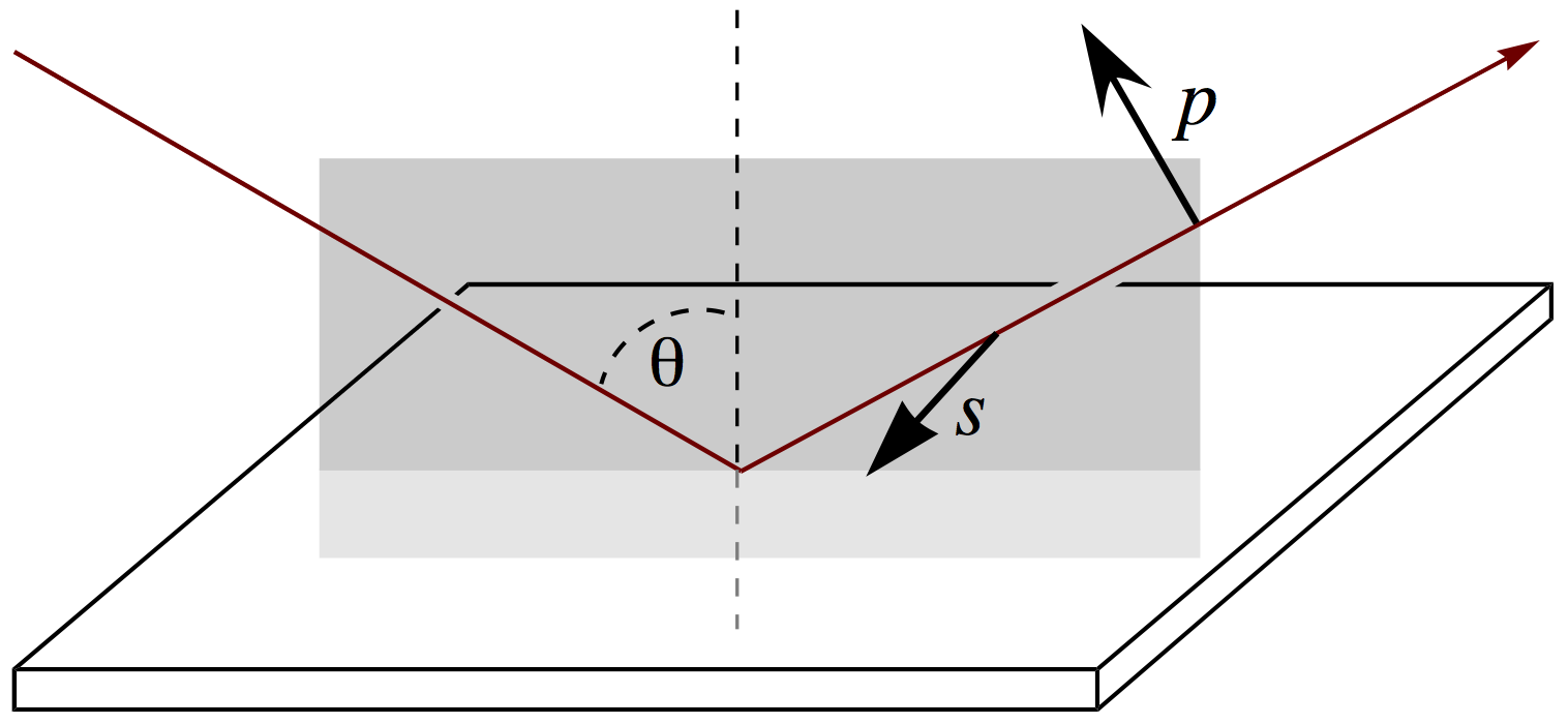 Infrared beam p and s polarizations at the interface in PM-IRRAS experiments. θ is the incident angle.